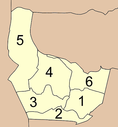 Map of Nonthaburi province, Thailand, with the Amphoe numbered. Mueang Nonthaburi (อำเภอเมืองนนทบุรี) Bang Kruai (อำเภอบางกรวย) Bang Yai (อำเภอบางใหญ่) Bang Bua Thong (อำเภอบางบัวทอง) Sai Noi (อำเภอไทรน้อย) Pak Kret (อำเภอปากเกร็ด)